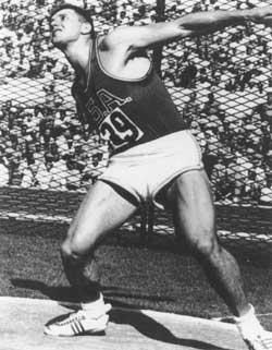 Al Oerter at 1960 Summer Olympics in Rome